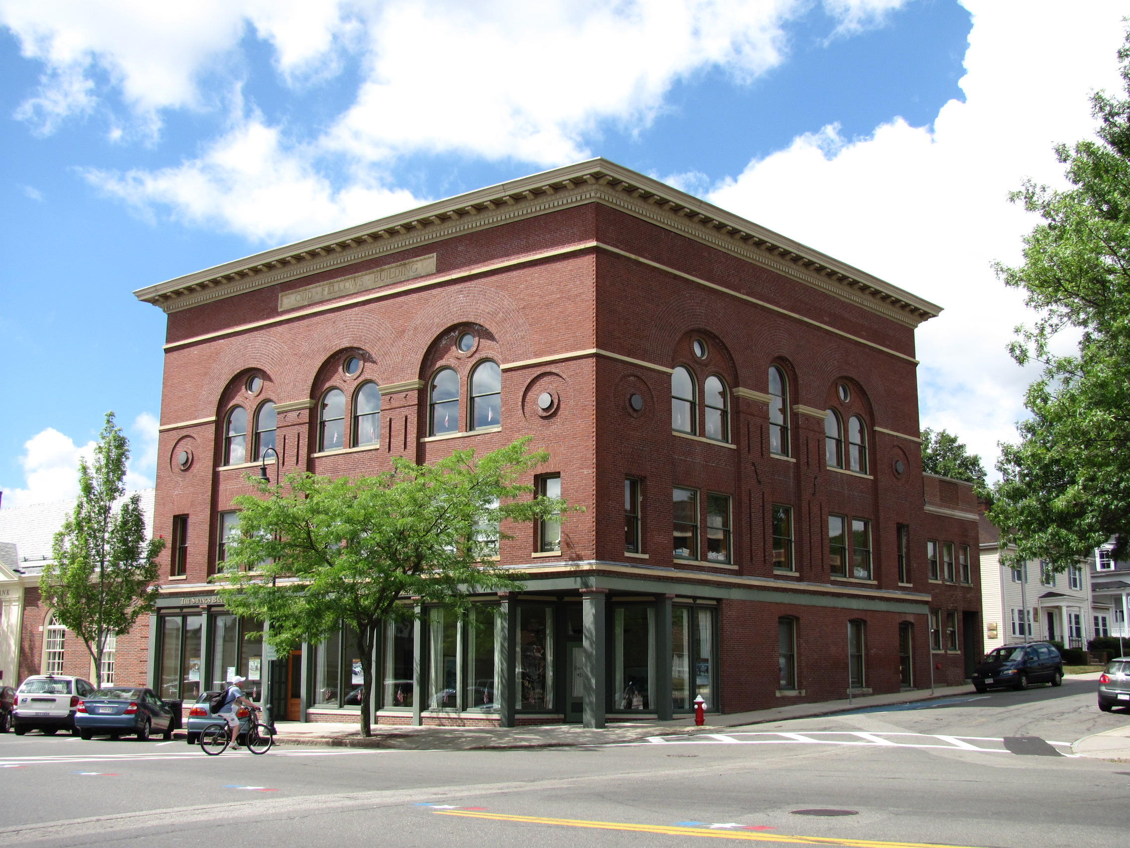 Flanley's Block, Wakefield Massachusetts - currently the Odd Fellow's Building